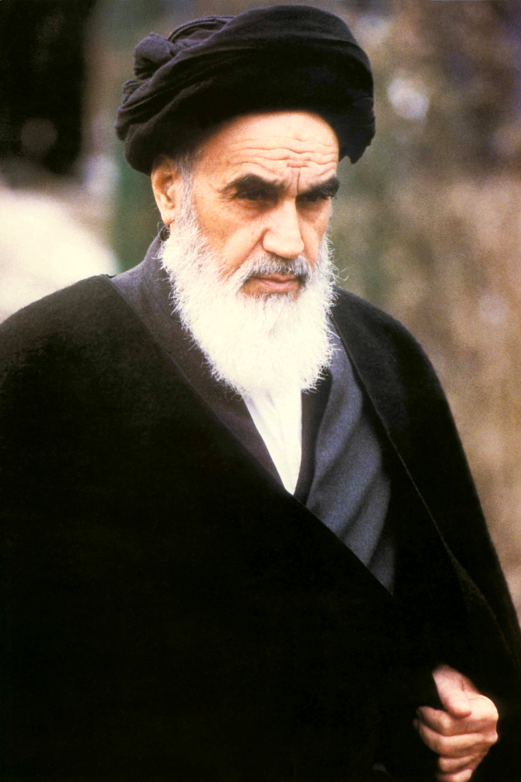 Ruhollah Khomeini